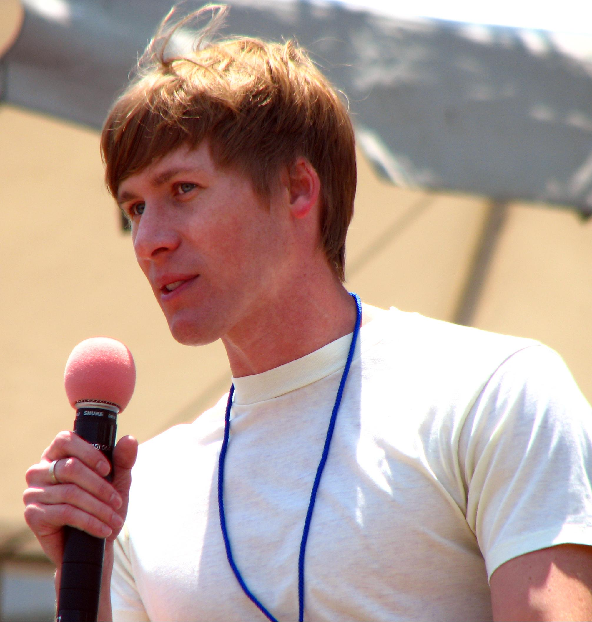 Dustin Lance Black, screenwriter